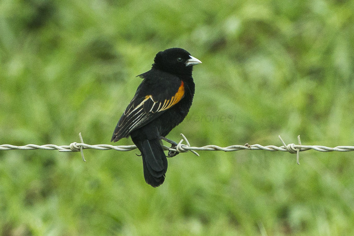 Fan-tailed Widowbird - Natal - South Africa_S4E7618